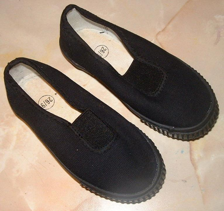 Traditional child's plimsolls for school physical education classes in the United Kingdom